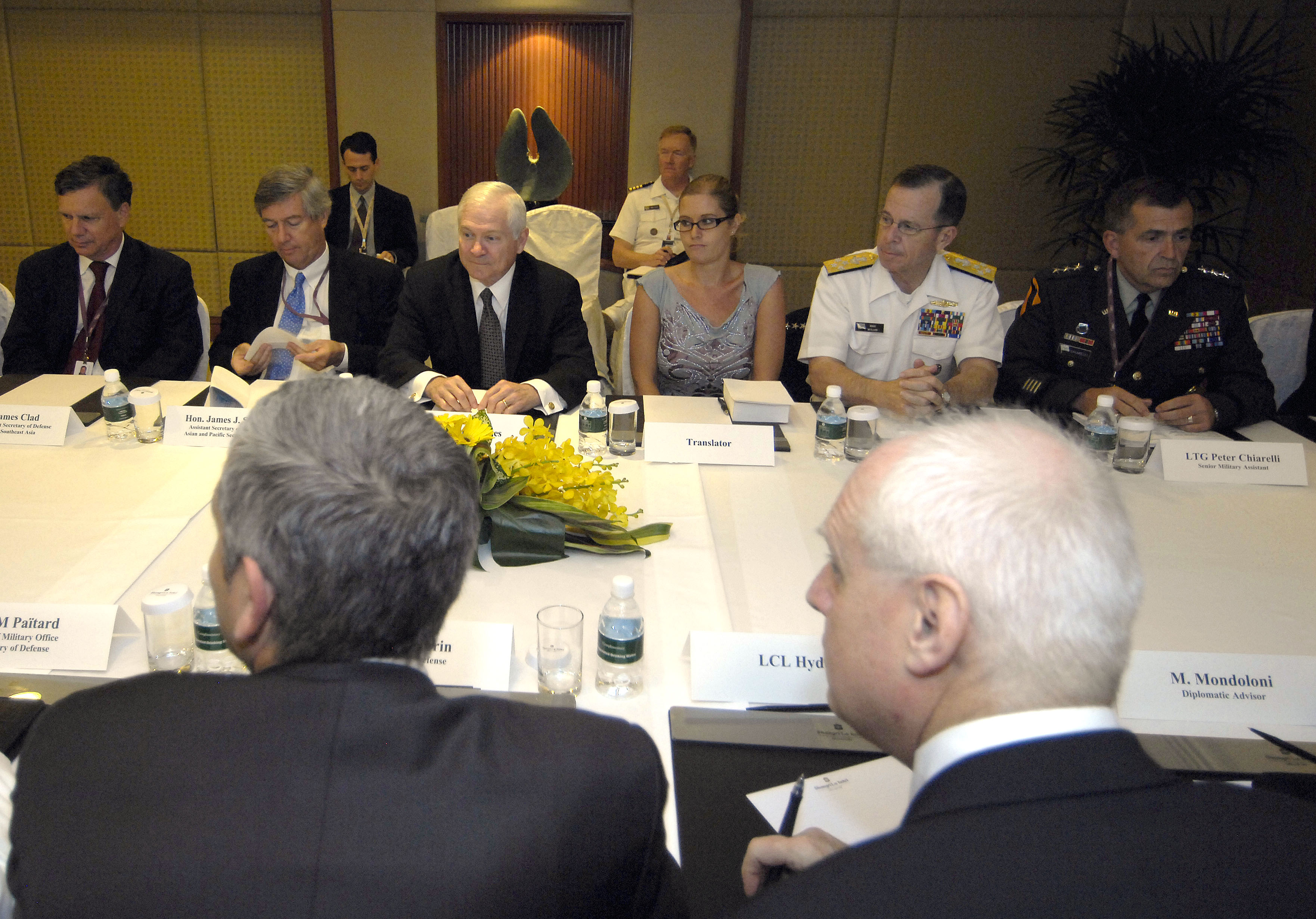 From left: James J. Shinn, assistant secretary of defense for Asian & Pacific Security, U.S. Defense Secretary Robert M. Gates, a translator, U.S. Navy Adm. Mike Mullen, chairman of the Joint Chiefs of Staff, and U.S. Army Lt. Gen. Peter Chiarelli, senior military assistant to the secretary, hold a bilateral meeting with French Minister of Defense Herve Morin and his staff during the 7th annual Asia Security Summit, the Shangri-La Dialogue in Singapore.